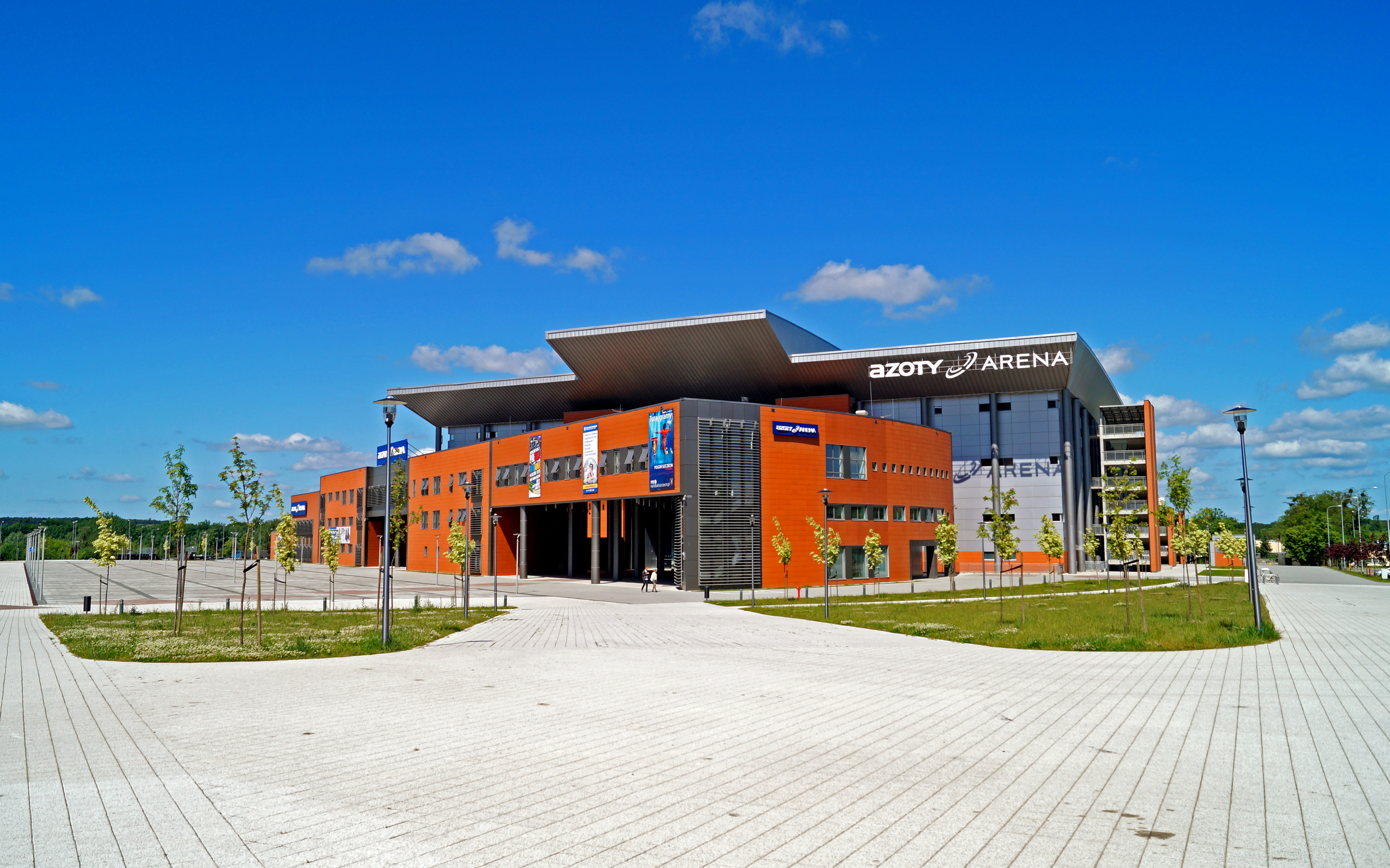 Arena Szczecin (Arena Azoty) in Szczecin, Poland